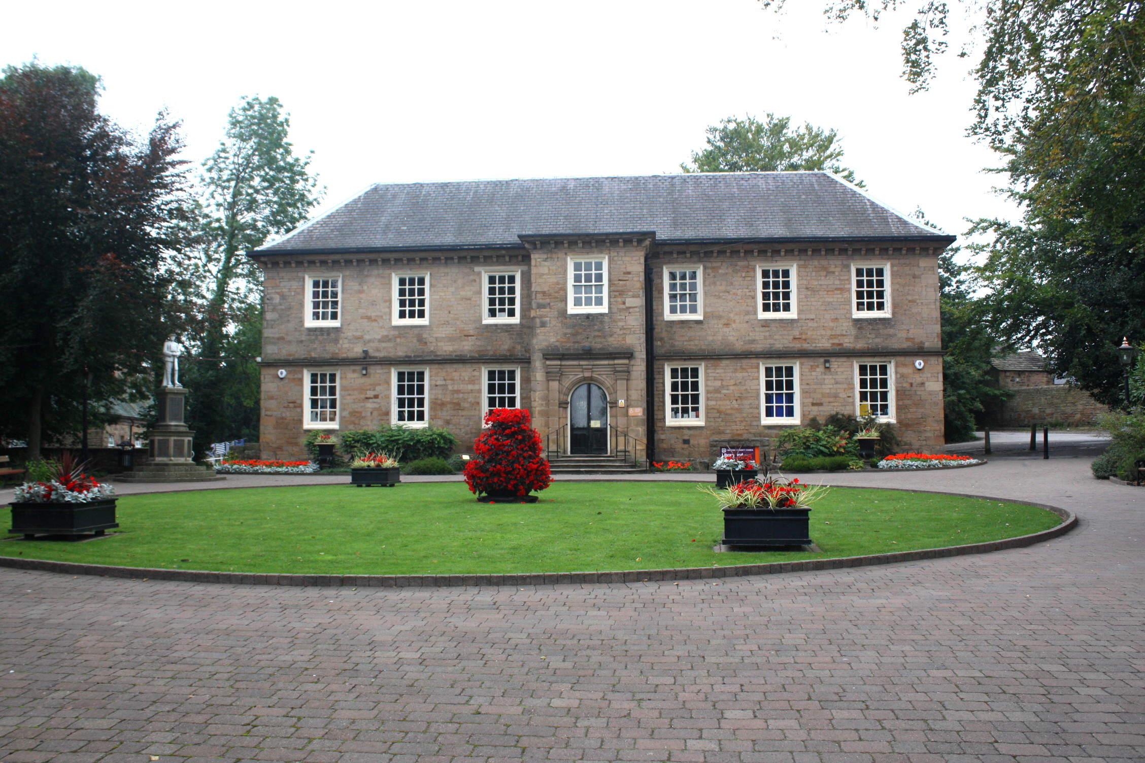 Dronfield, England. The Library in the Town centre